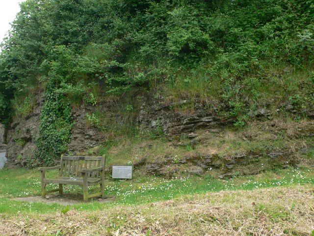 Ludford Corner Upper Silurian rocks exposed at Ludford Corner - the Ludford Bone Bed has fragmented remains of primitive fish from about 400 million years ago.